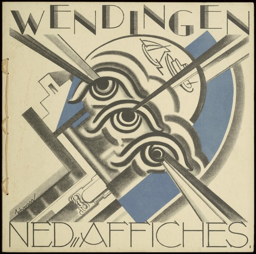 Front cover of Dutch art magazine Wendingen 1931-2. Design by S.L. Schwarz